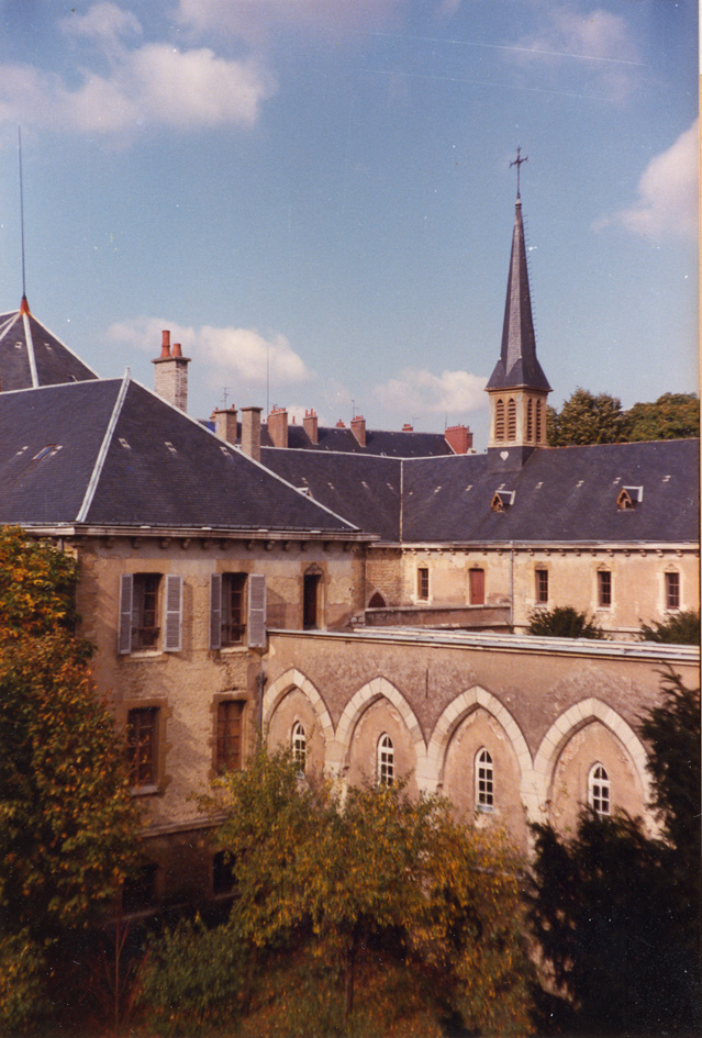 General view of the (former) Carmel of Dijon, France, boulevard Carnot, built in 1870; since 1979, the carmelites live in a new convent at Flavignerot.